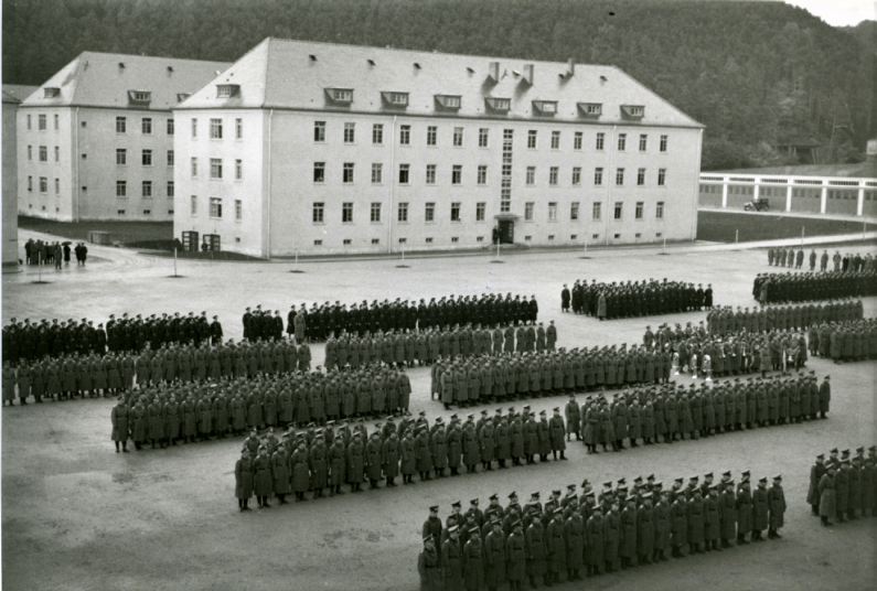 Opening ceremony of the Burgholz Barracks in Tübingen